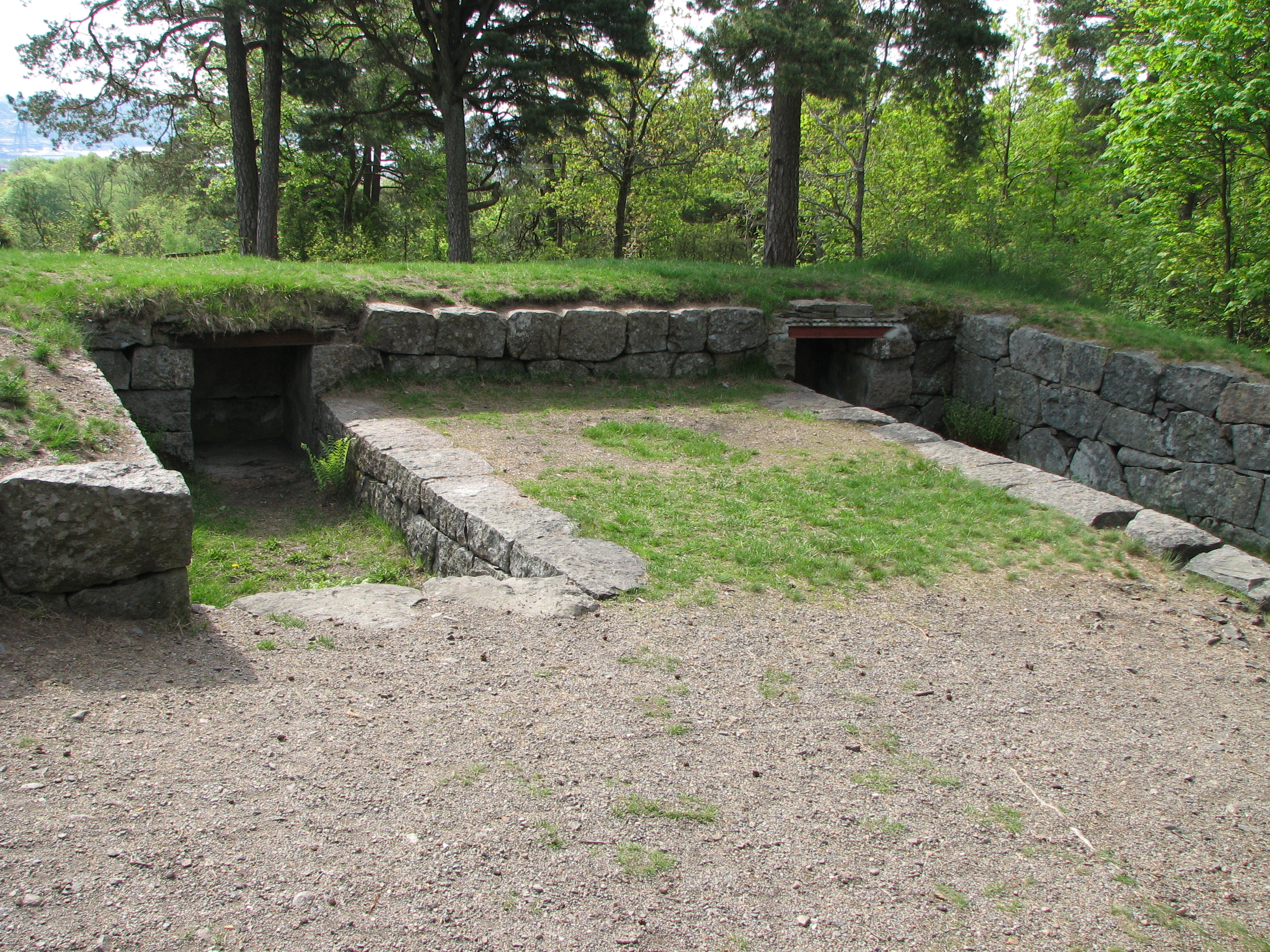 Gun stand at Orkerødbatteriet in Moss, Norway